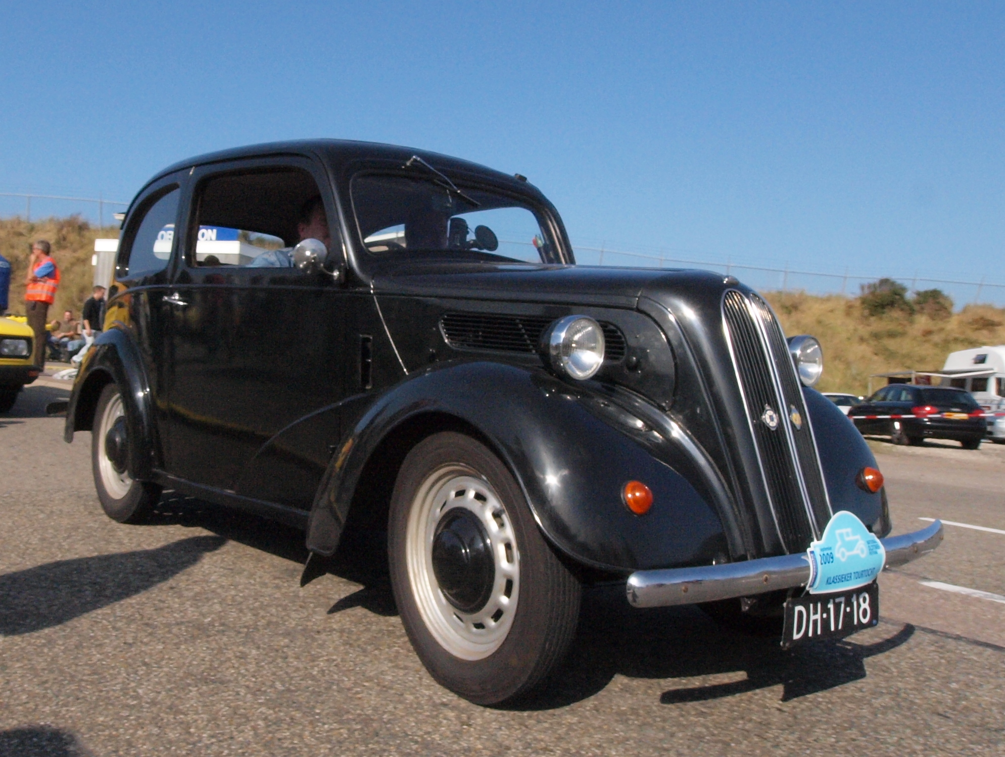 Ford Popular 103E Photographed at the Nationaal Oldtimer Festival Zandvoort 2009, The Netherlands. OLYMPUS DIGITAL CAMERA